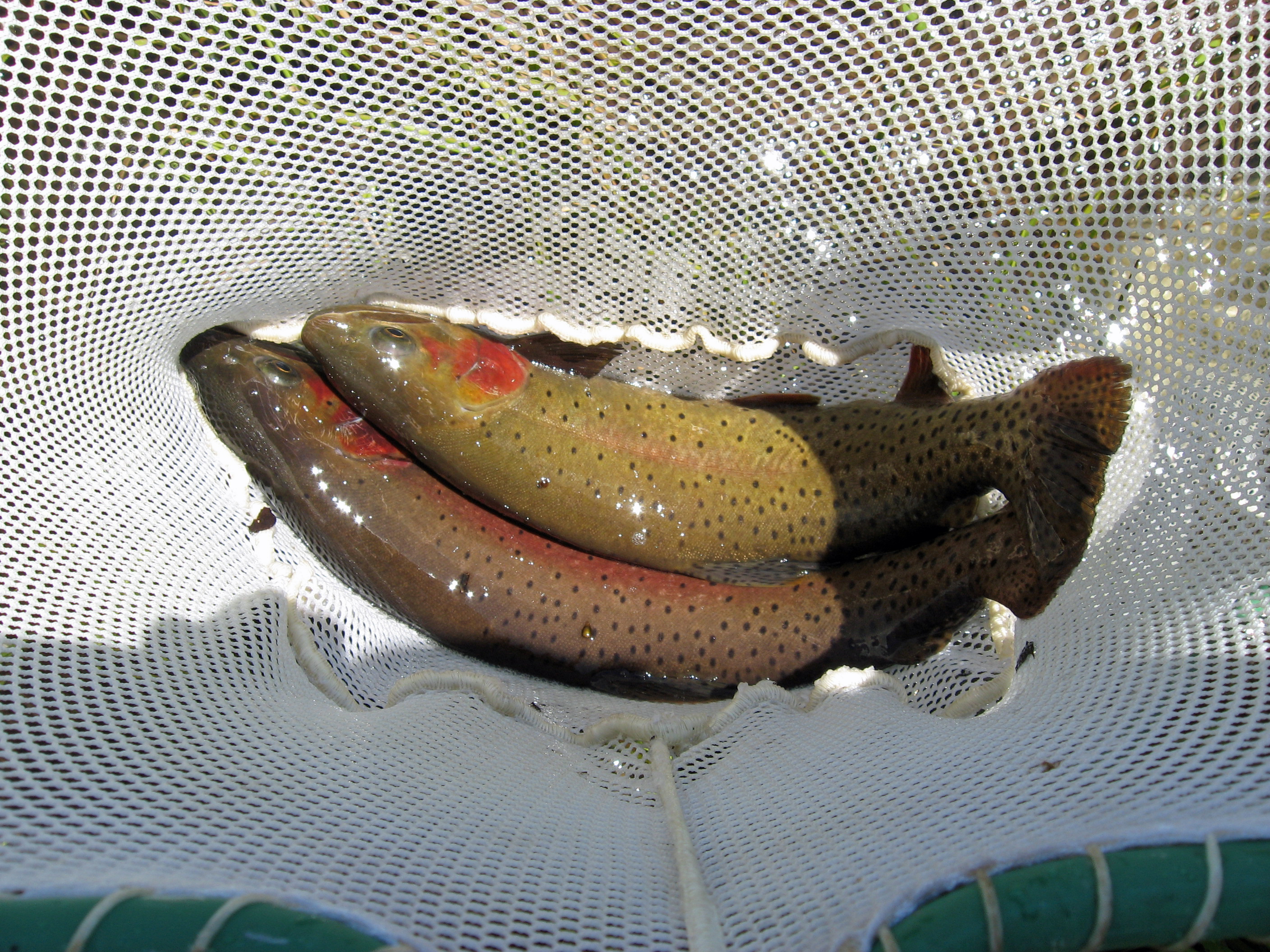 Two westslope cutthroat trout (Oncorhynchus clarki lewisi) in the White Cloud Mountains of Sawtooth National Recreation Area, Idaho